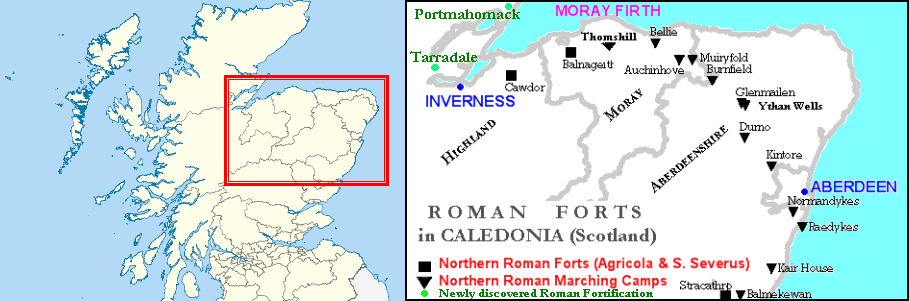 Based in and